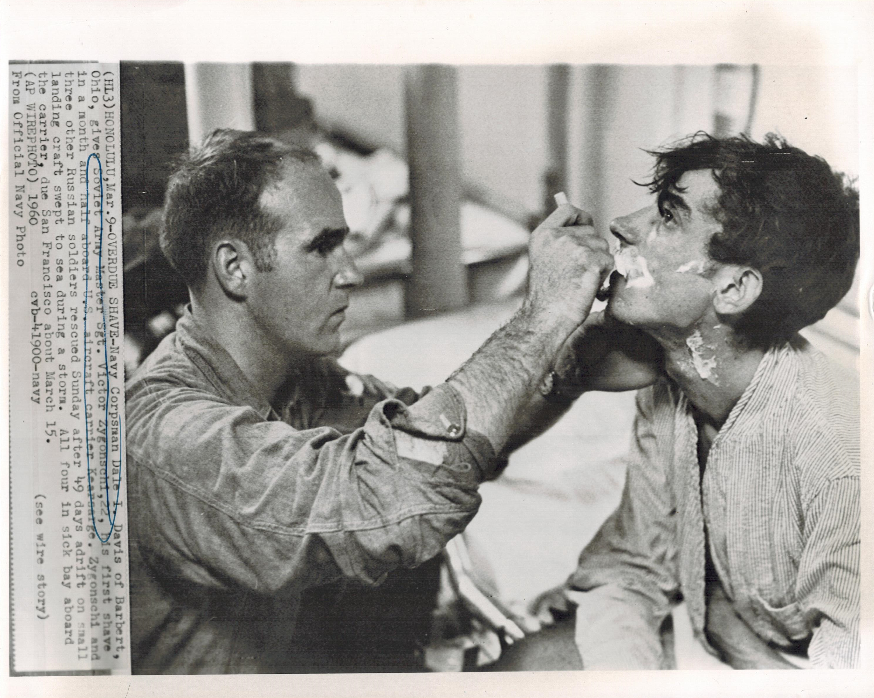 (HL3)HONOLULU,Mar.9-OVERDUE SHAVE-Navy Corpsman Dale I. Davis of Barbert, Ohio, gives Soviet Army Master Sgt. Victor Zygonschi,22, his first shave in a month and a half aboard U.S. aircraft carrier Kearsarge. Zygonschi and three other Russian Soldiers recued Sunday after 49 days adrift on small landing craft swept to sea during a storm. All four in sick bay aboard the carrier, due San Francisco about March 15. (AP WIREPHOTO) 1960. cvb-41900-navy (see wire story) From Official Navy Photo